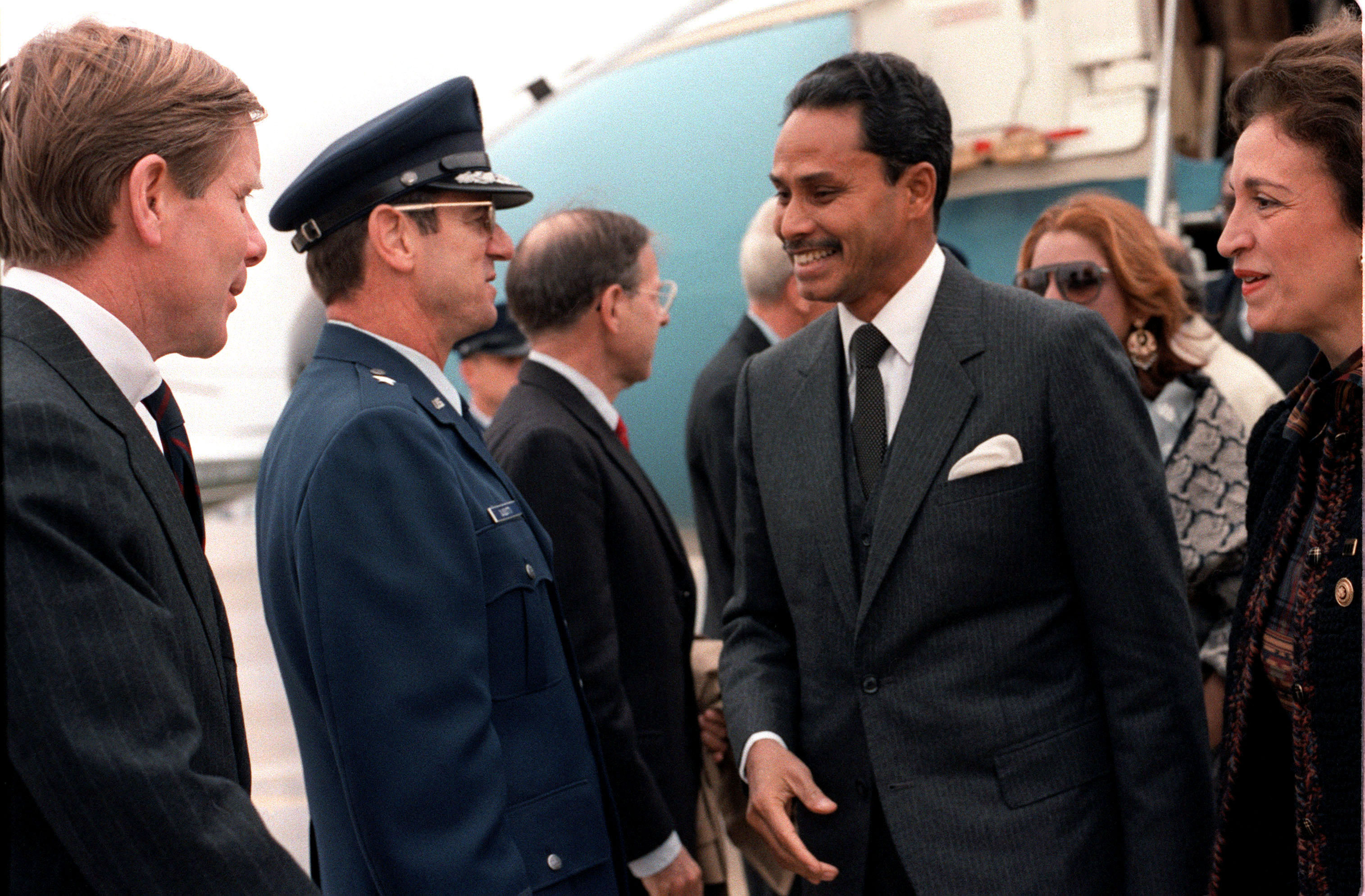 Scope and content: Pictured: President Hussain Mohammad Ershad of Bangladesh arrives for a state visit